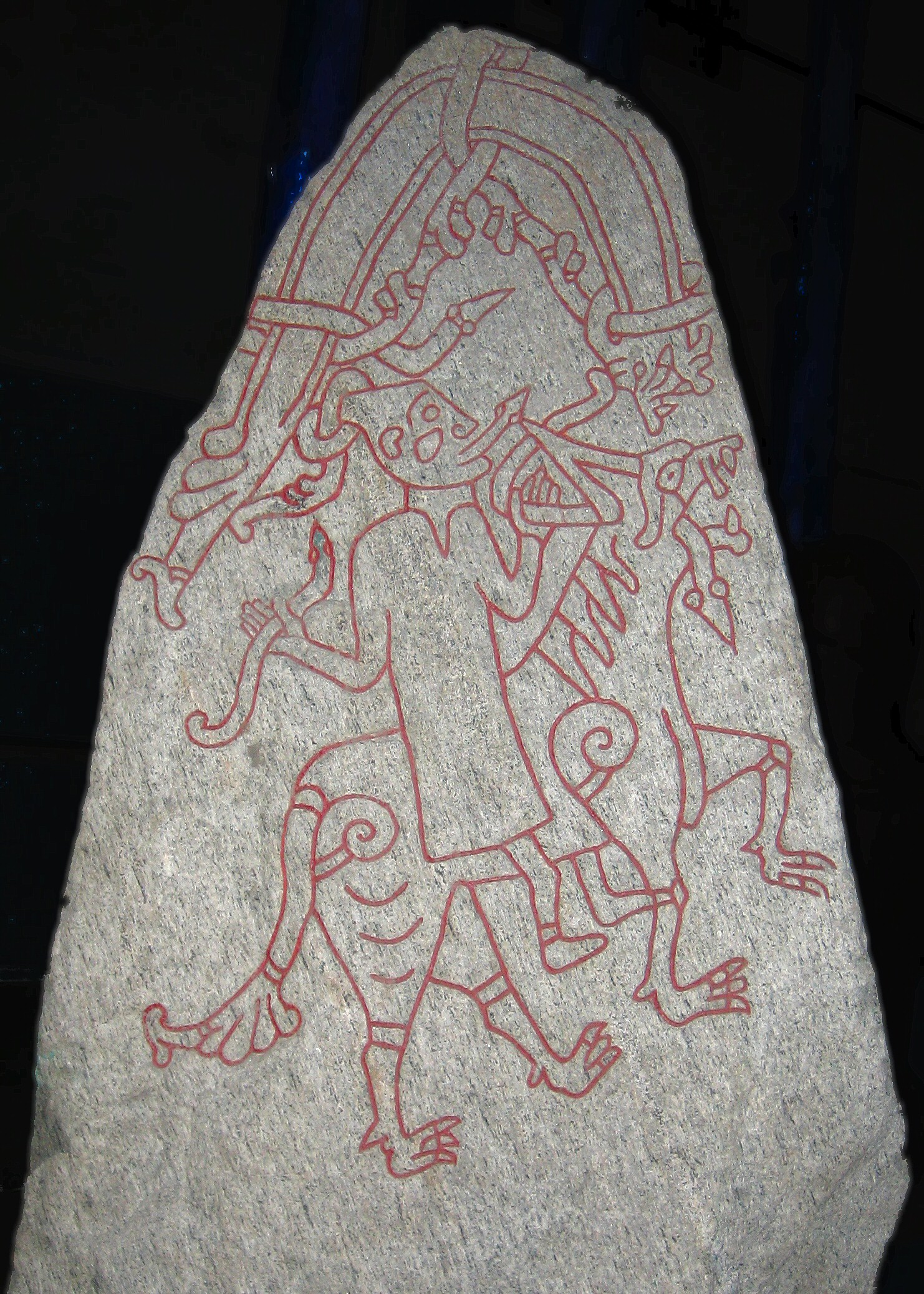 Rune stone (without runes = picture stone) DR 284 from the Hunnestad monument currently at display in Kulturen, Lund, Sweden (September 2008). Photo taken by the uploader 080903. It s believed that the depicted creatures are the giant Hyrrokkin riding on her wolf.